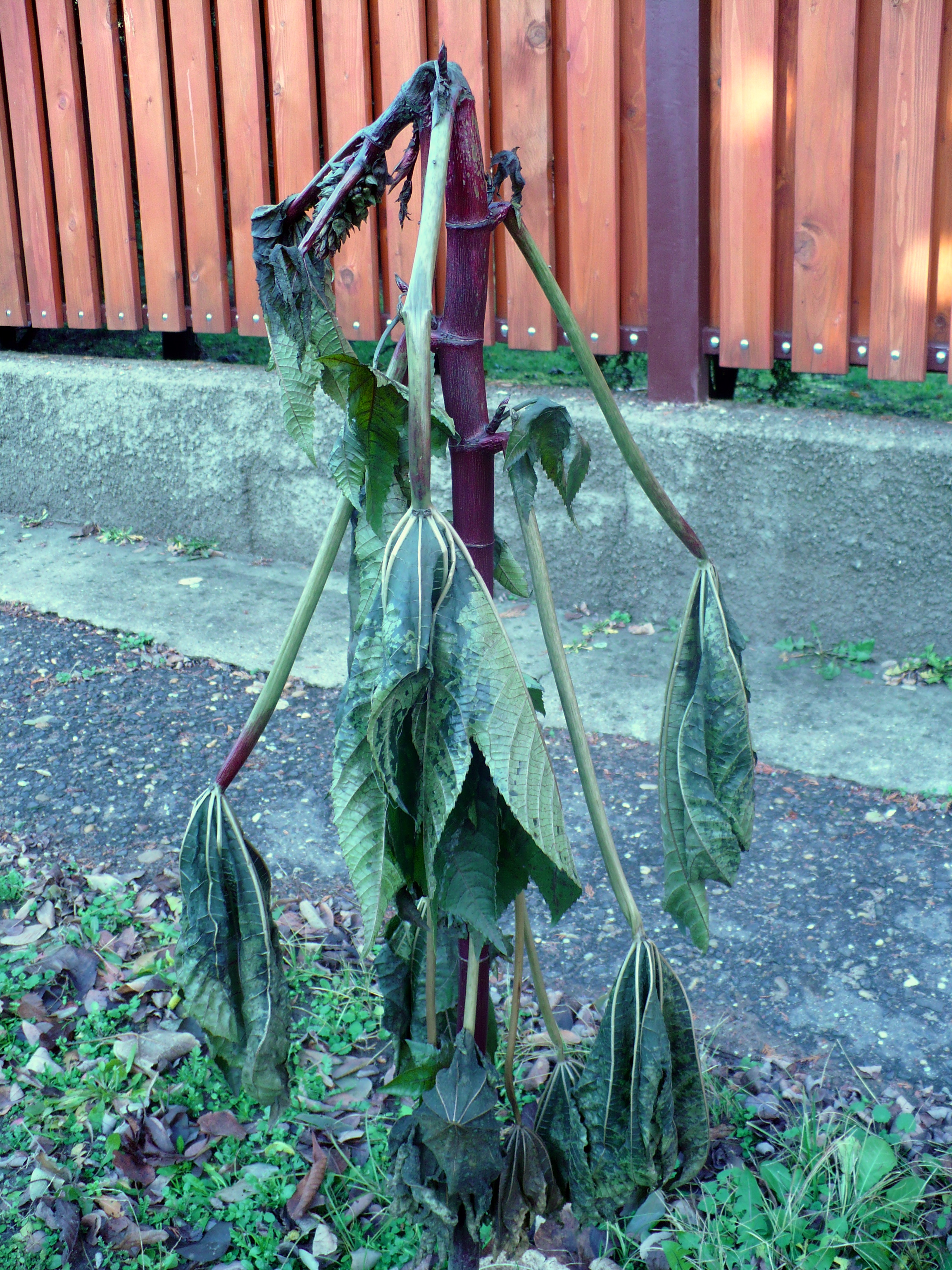 Ricinus in winter